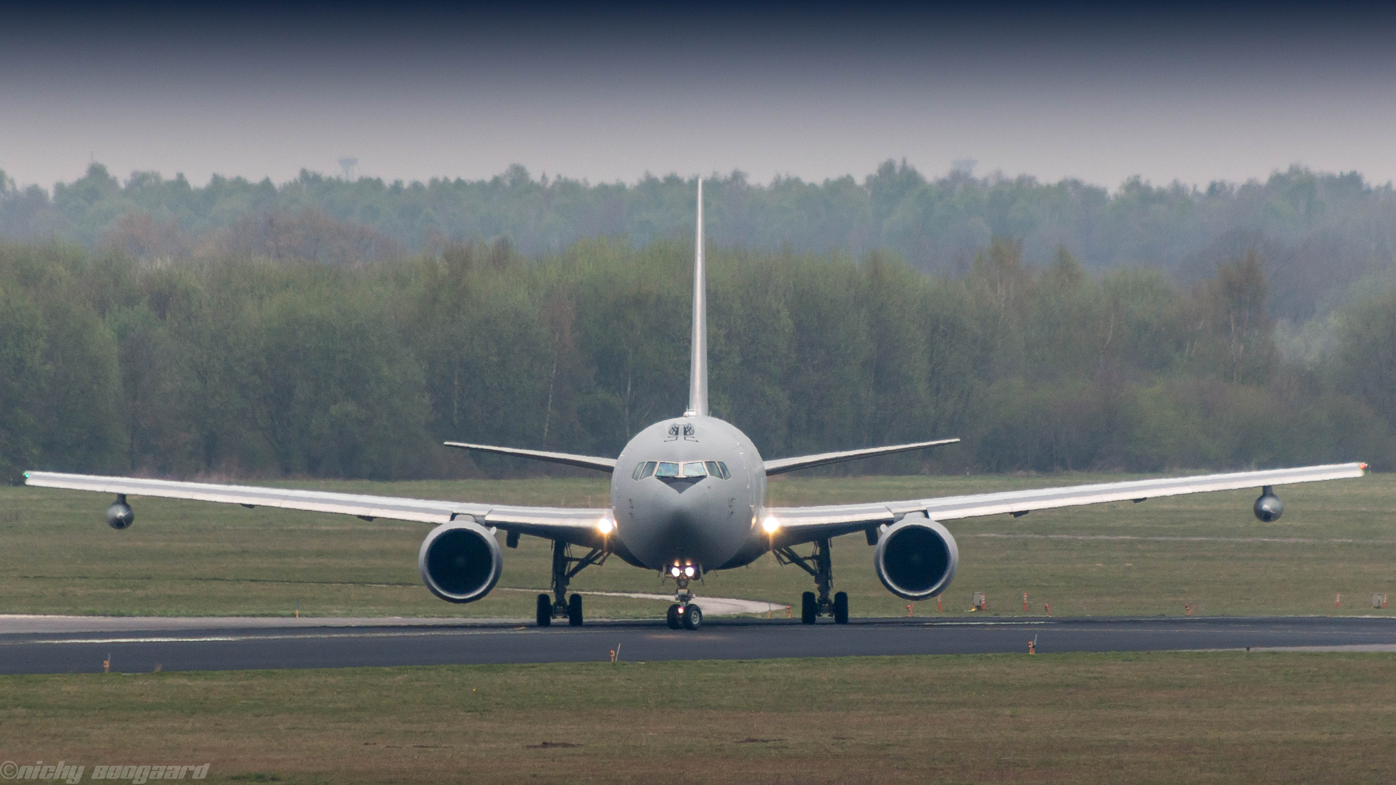 Eindhoven Airport, the Netherlands